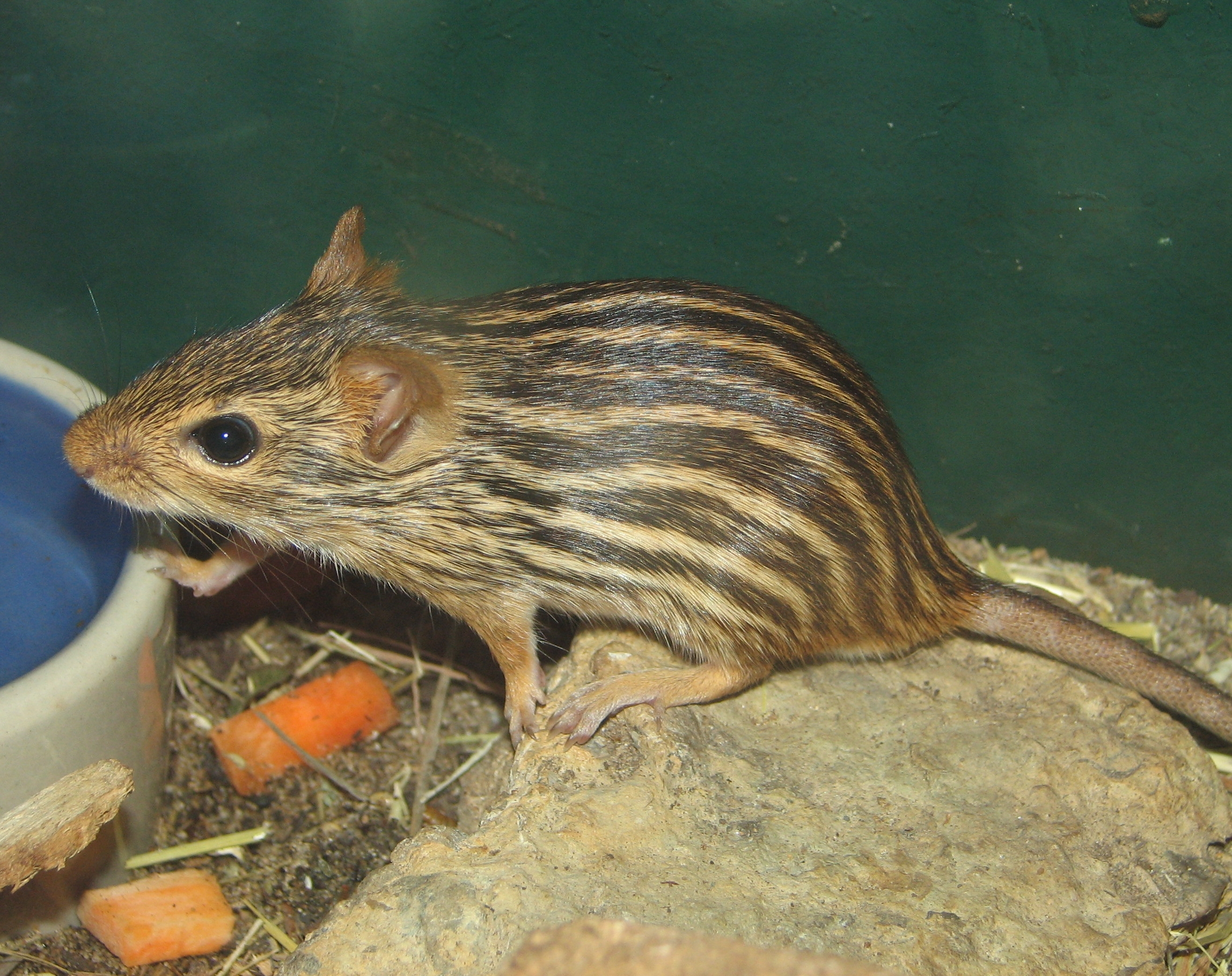 Zebra Mouse (Lemniscomys barbarus) at the Louisville Zoo, Kentucky